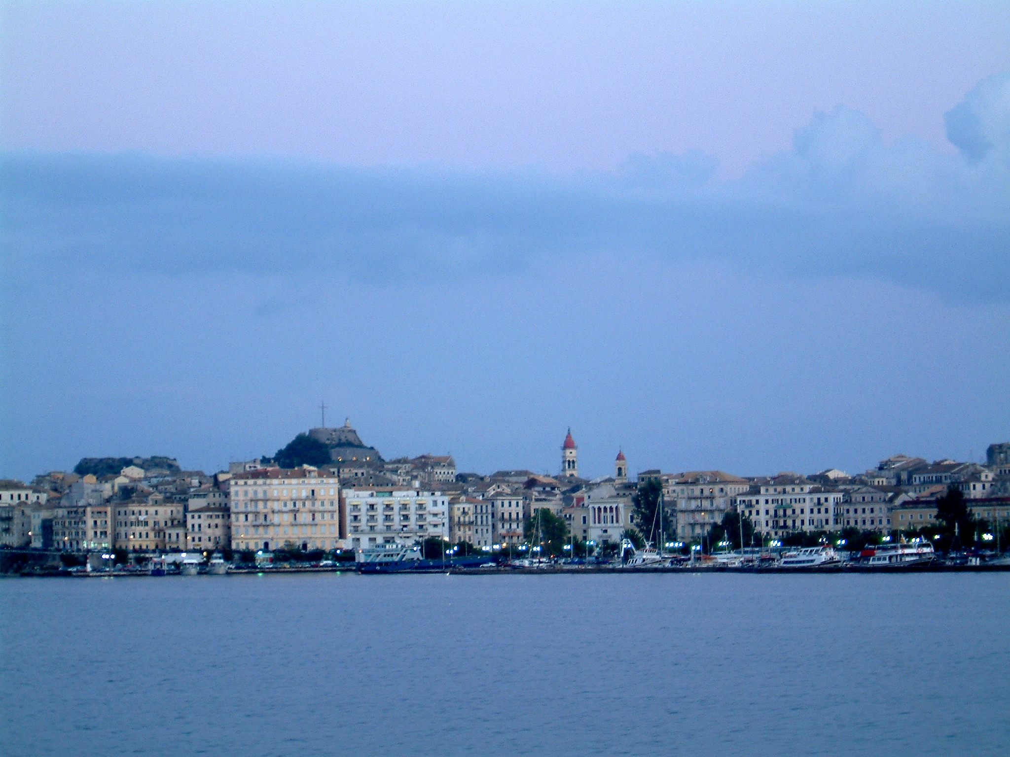 Greece_Corfu_Island_-_Capital_Kérkira_2